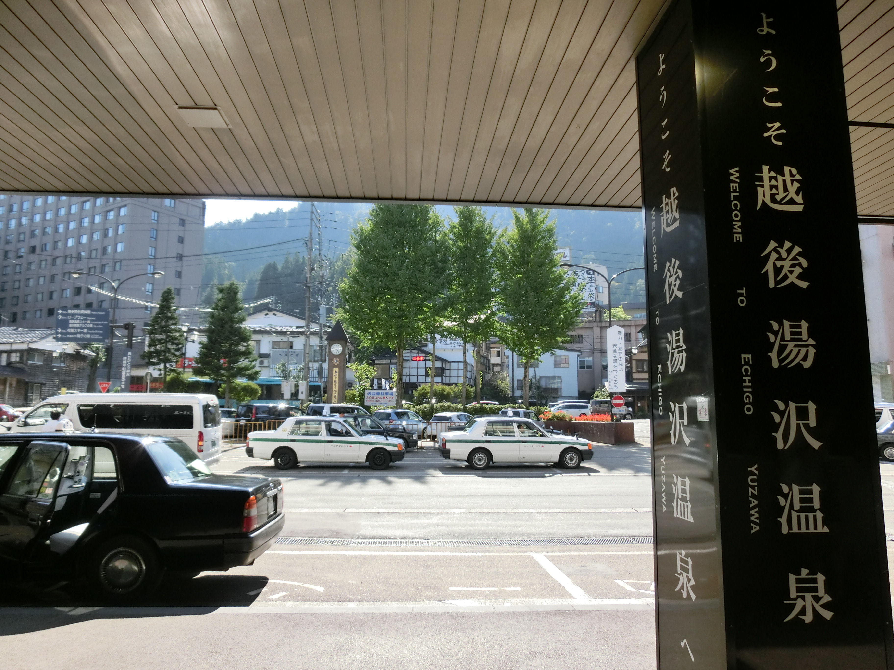 Entrance to Echigo-Yuzawa Onsen